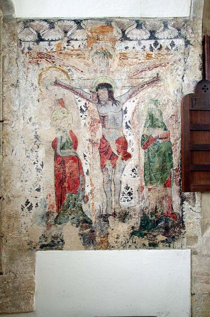 St Laurence, Combe, Oxon - Wall painting